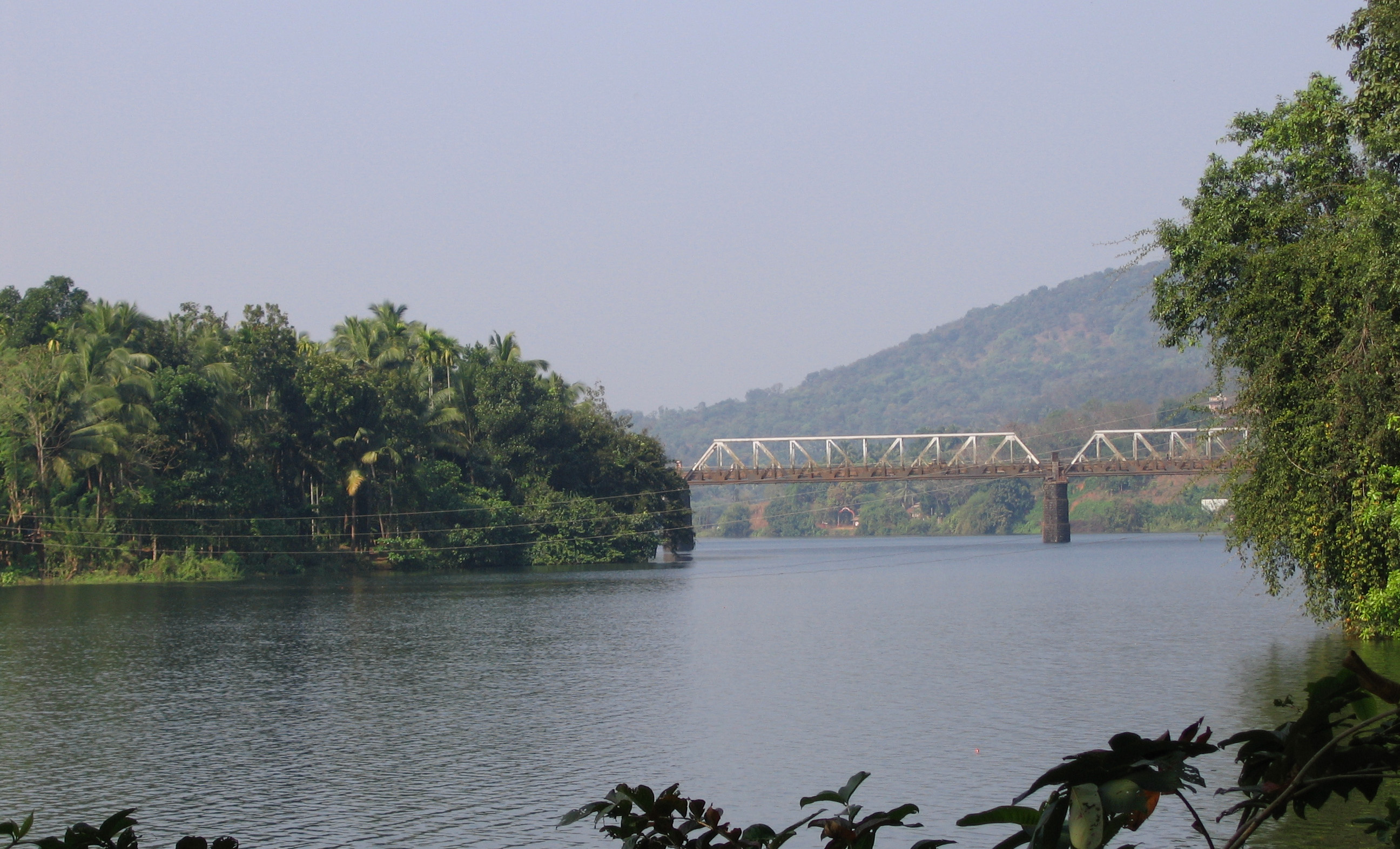 Iritty Bridge, built by the British, still in use. ബ്രിട്ടീഷുകാരുണ്ടാക്കിയ ഇരിട്ടി പാലം